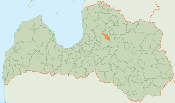 Map of Cēsis